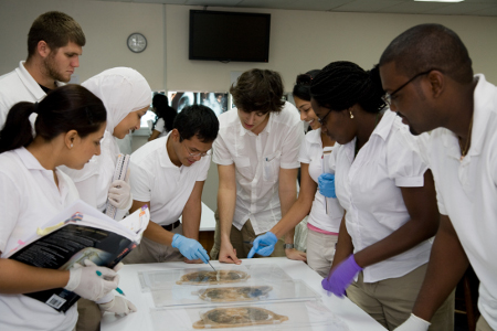 Picture of students